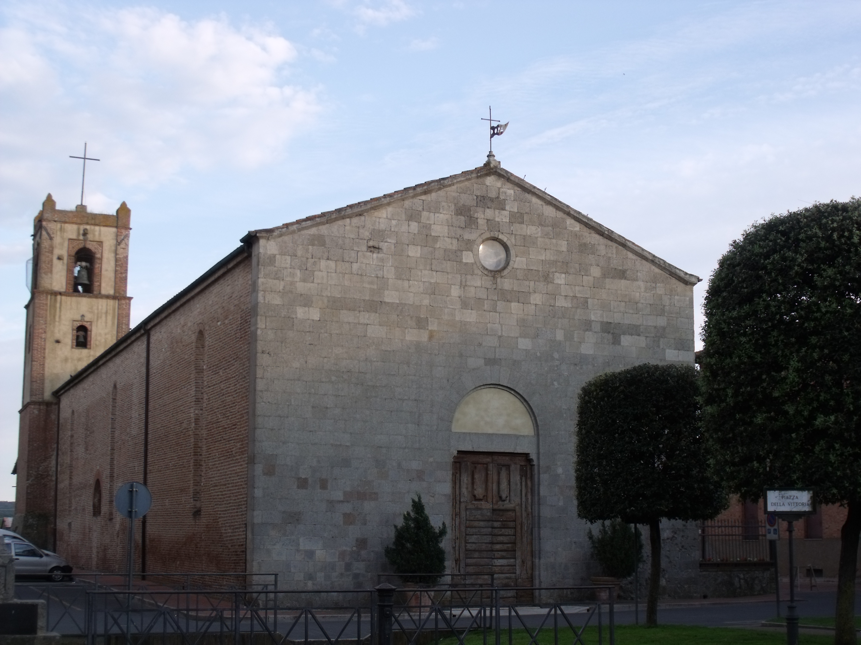 Church of San Michele Arcangelo in Paganico, hamlet of Civitella Paganico, Maremma, Province of Grosseto, Tuscany, Italy